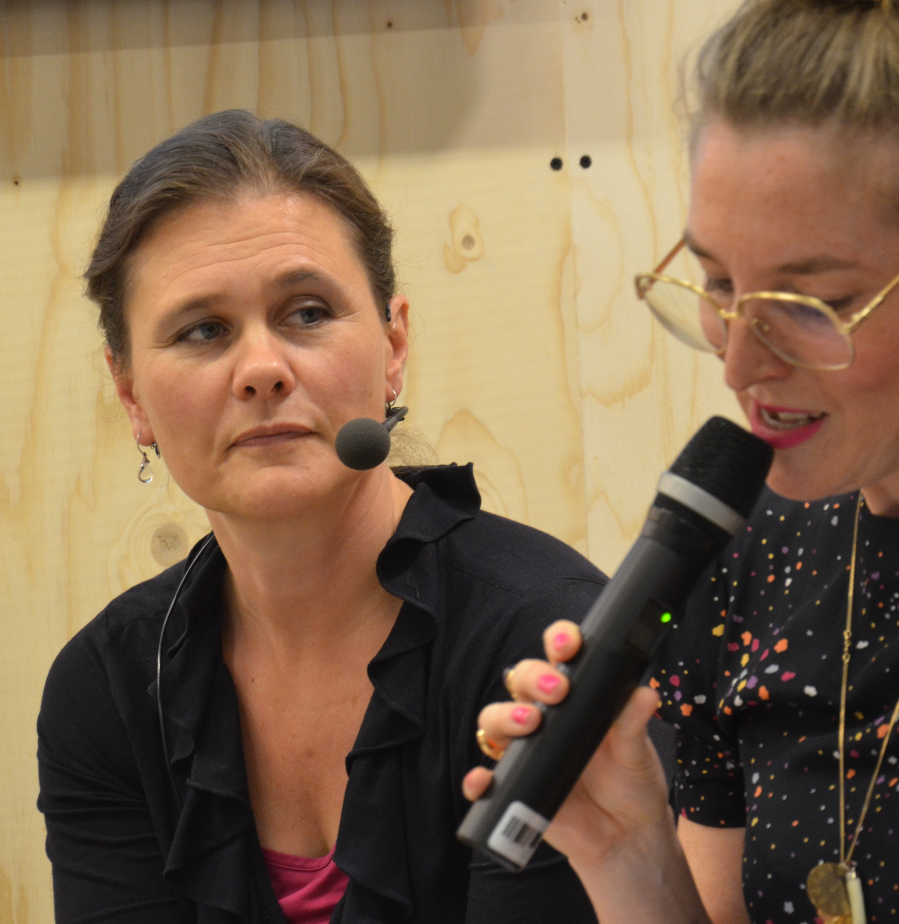 Karin Milles, Swedish linguistics researcher